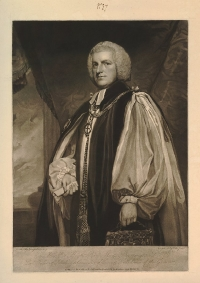 Shute Barrington (1734-1826)